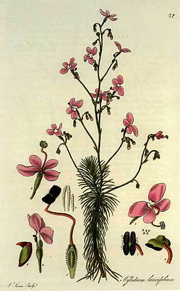 Botanical print of Stylidium laricifolium (larch leaved triggerplant) from Exotic Flora (1823) by William Jackson Hooker (1779-1832).